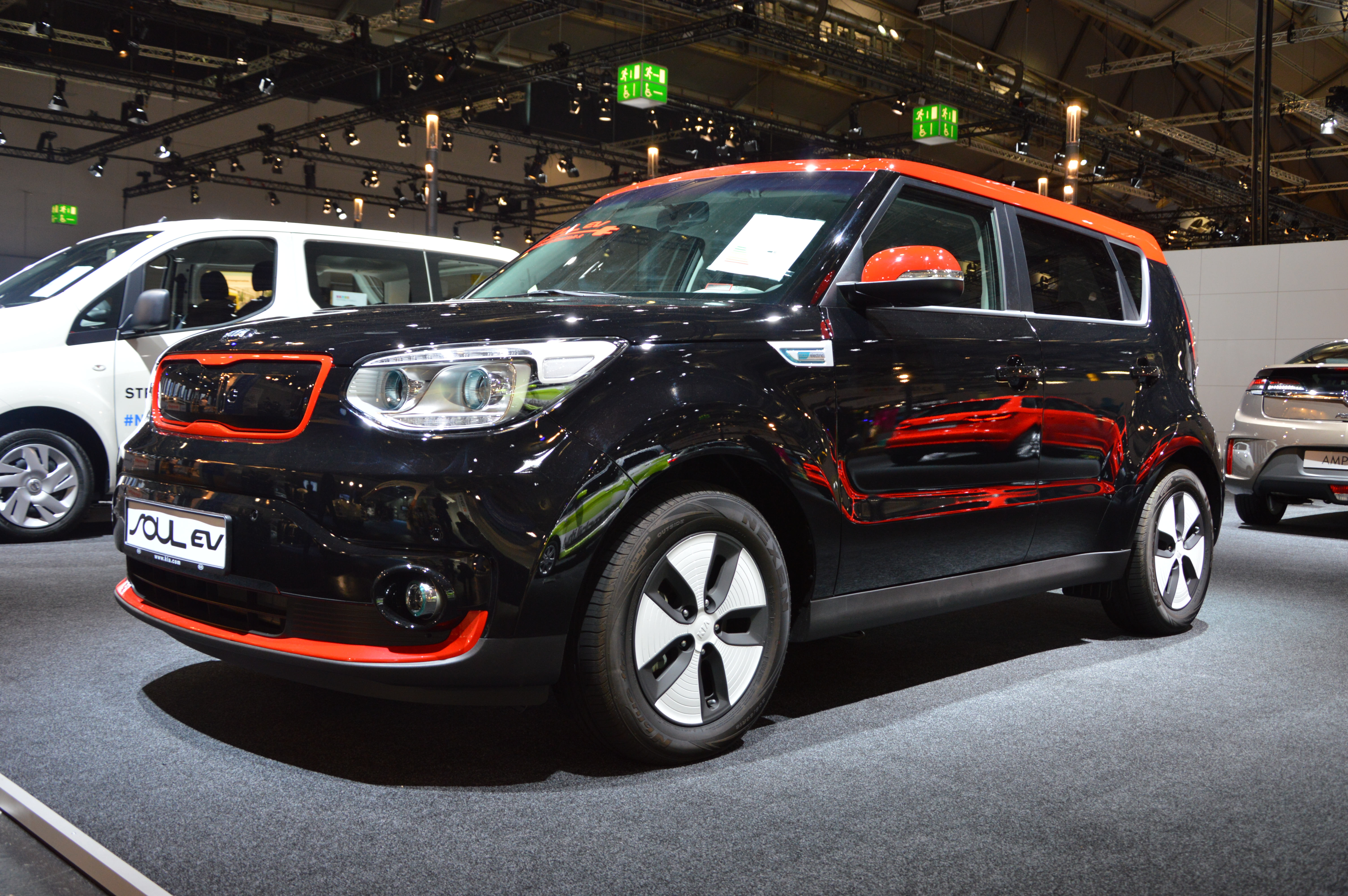 Kia soul EV. Photo taken at exhibition IAA 2015 in Francfort, Germany.